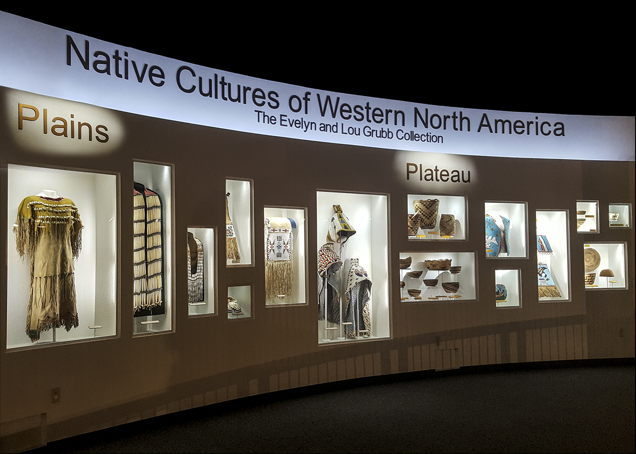 Native Cultures of Western North America is a new exhibit which explores the lifeways of dozens of Native American peoples from the Mississippi River to the Pacific Ocean, from Alaska to Mexico. Well-known and respected Arizona businessman Lou Grubb and his wife Evelyn assembled over the course of their lifetimes a marvelous collection of Native American art and material culture. Nearly all the objects in the exhibition are from the Evelyn and Lou Grubb collection; a few objects have been added from AzMNH collections. The museum are extremely grateful to the Grubb family for the donation of the collection.